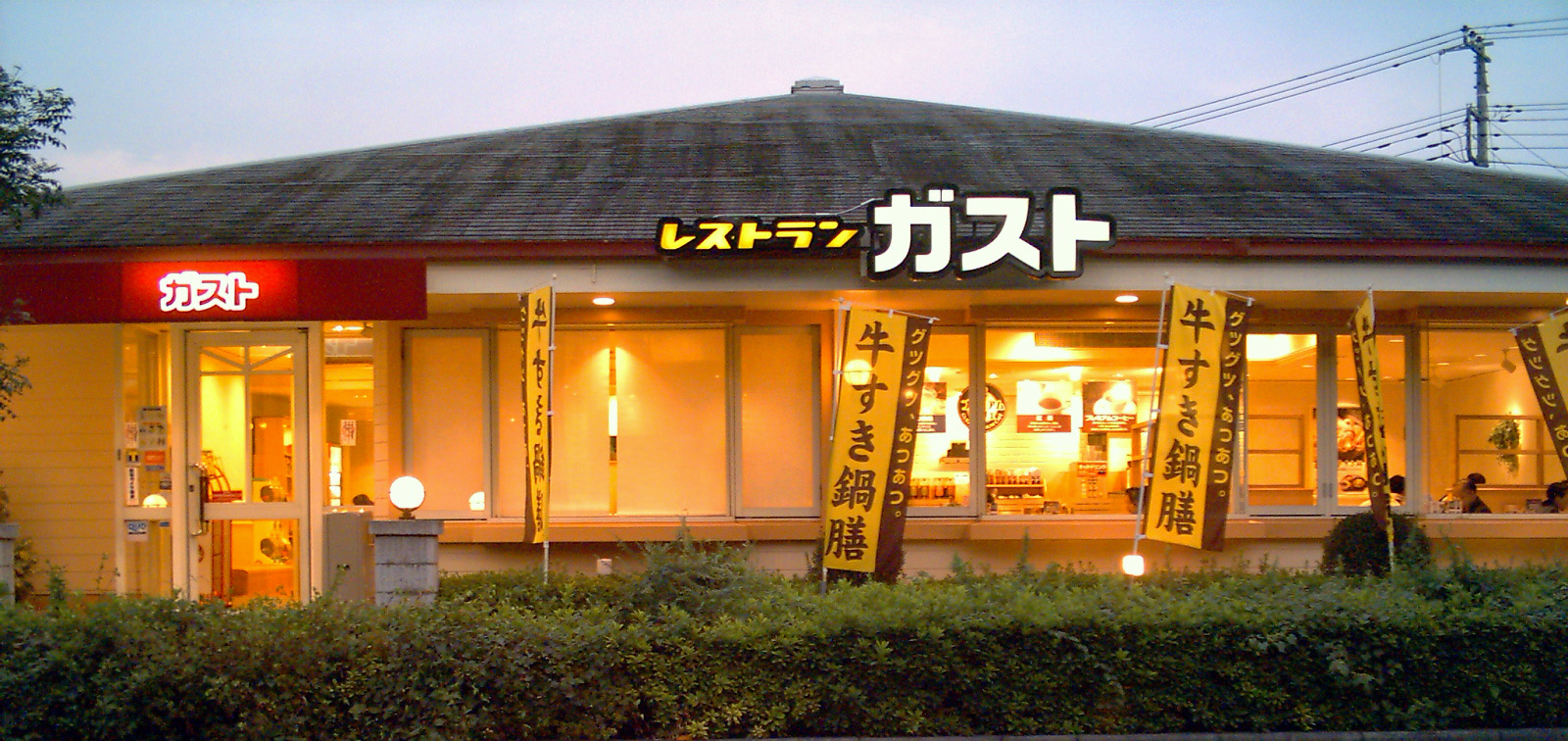 Gusto_Restaurant_japan photography day, 2006.10.29. photography person kici